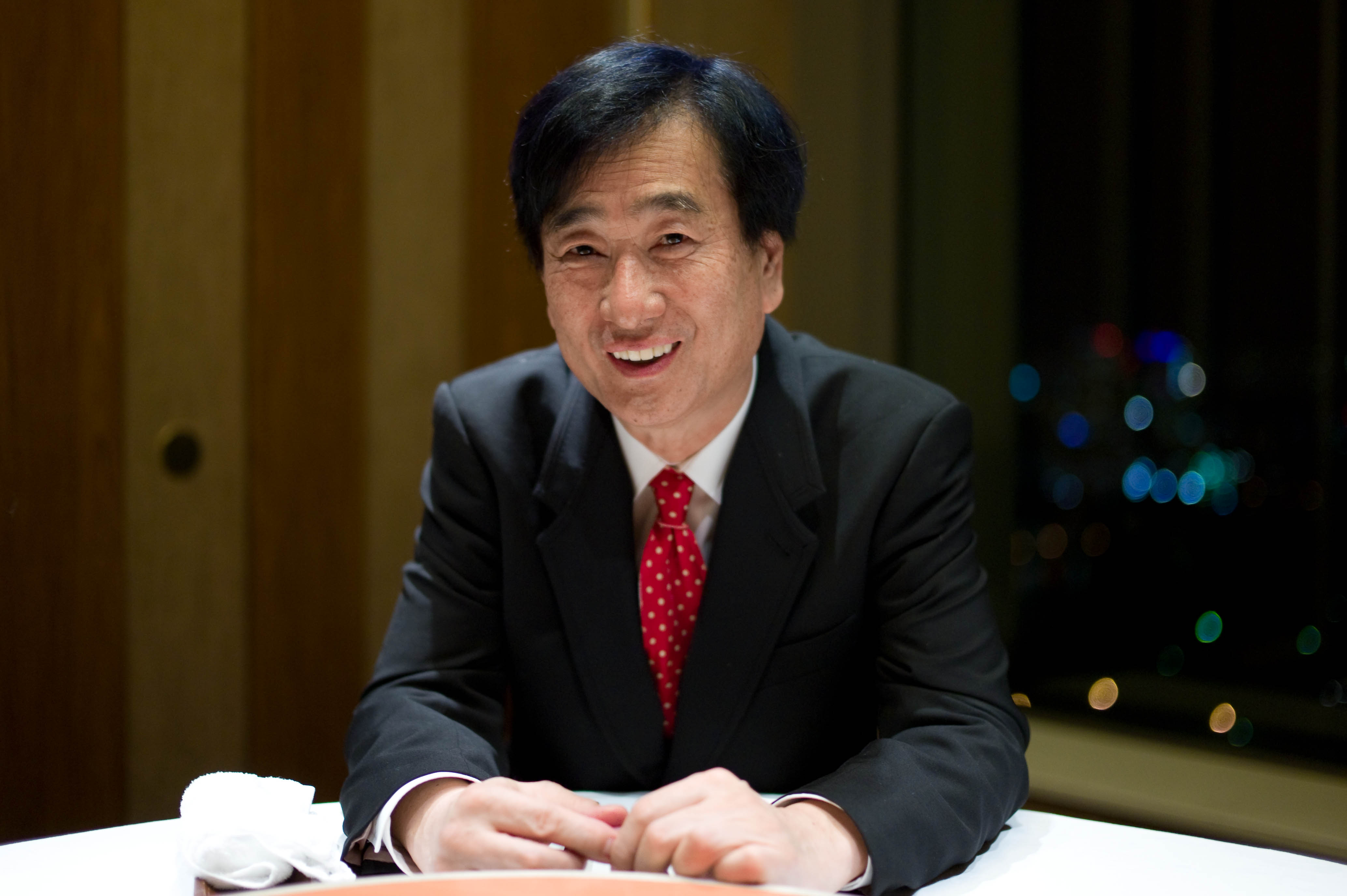 Shigeaki Saegusa, Professor of Tokyo College of Music, pose for photos in Tōkyō Metropolis on January 24, 2010.